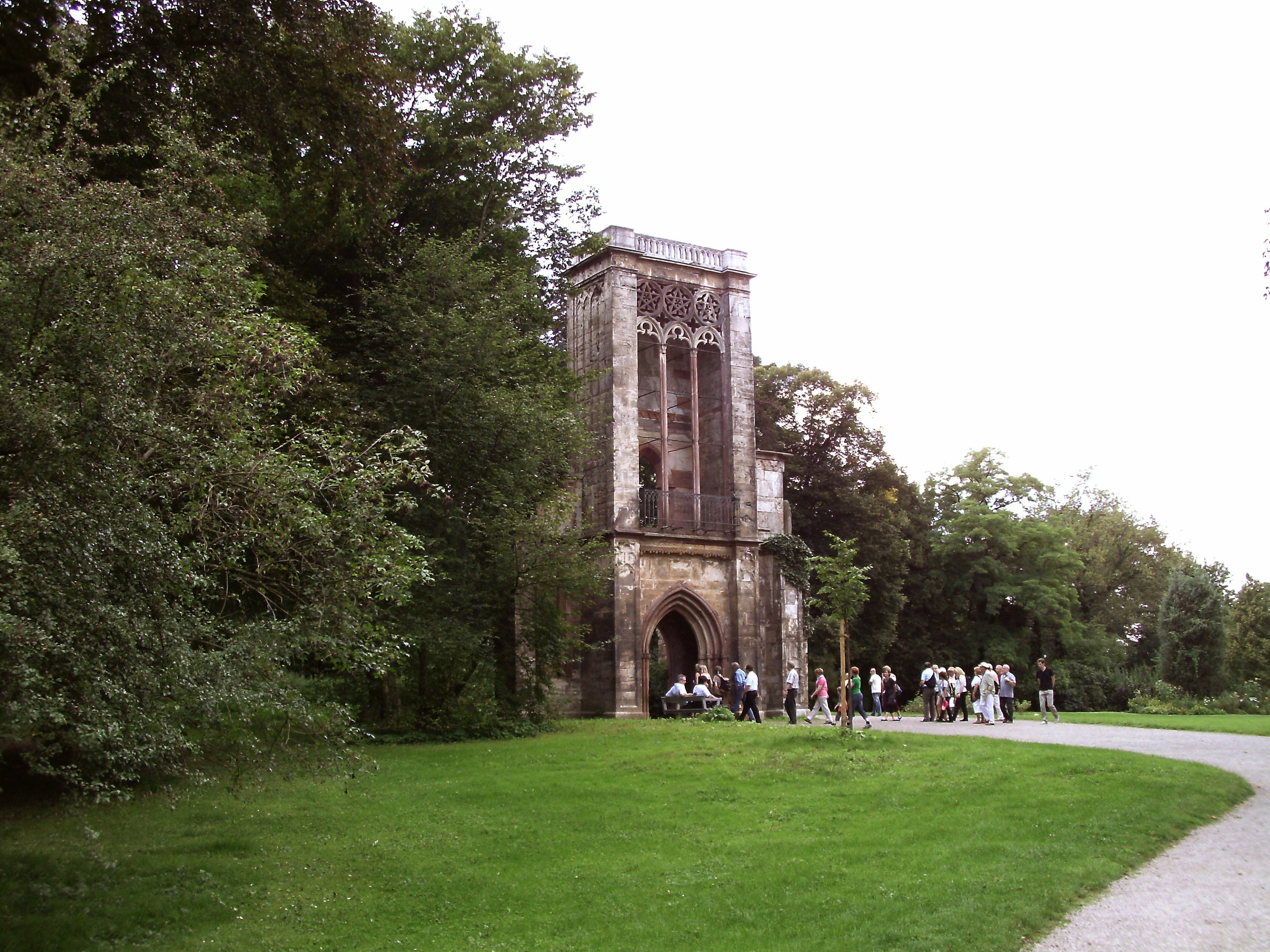 Ruins of Templar's House in the Ilm Park of Weimar (Thuringia)